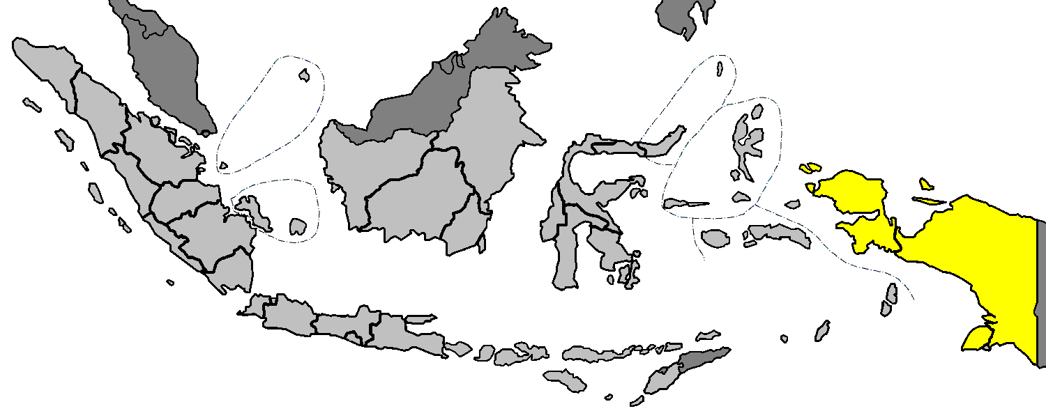 locator map of Indonesian islands